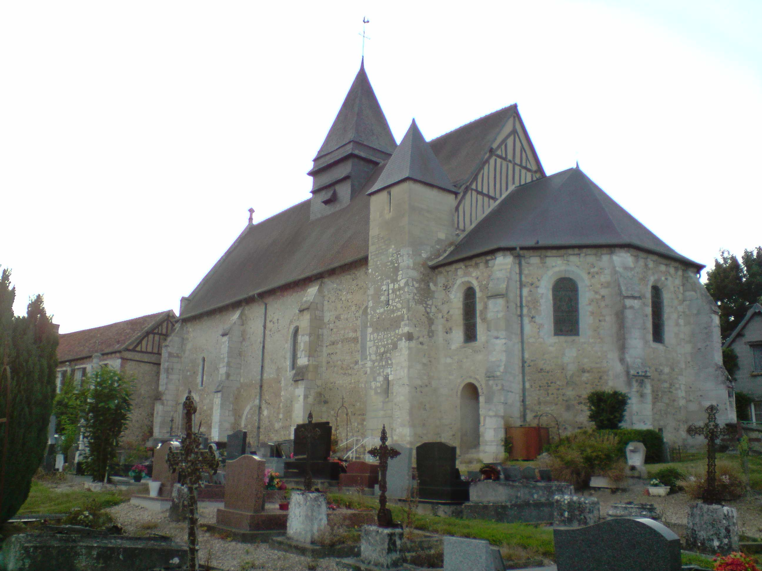 Church of the village of Harquency, Eure, France